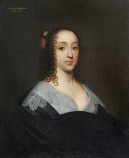 Portrait of Ann Fanshawe (1625-1680), wife of Sir Richard Fanshawe, English diplomat and author. Courtesy of the Valence House Museum, Dagenham.